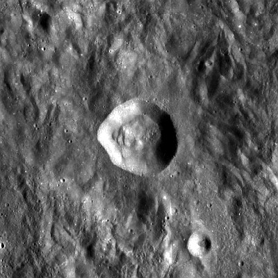 LROC . Kramarov lies on top of northern Orientale basin ejecta blanket.